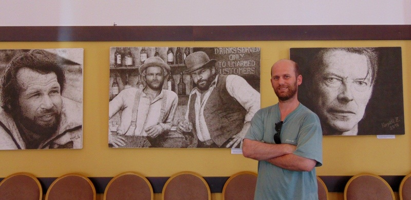 Zoltán Karpáti with his sand paintings in Balatonarács